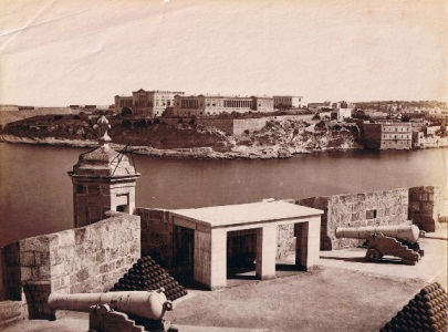 albumen print 19 x 24 cm